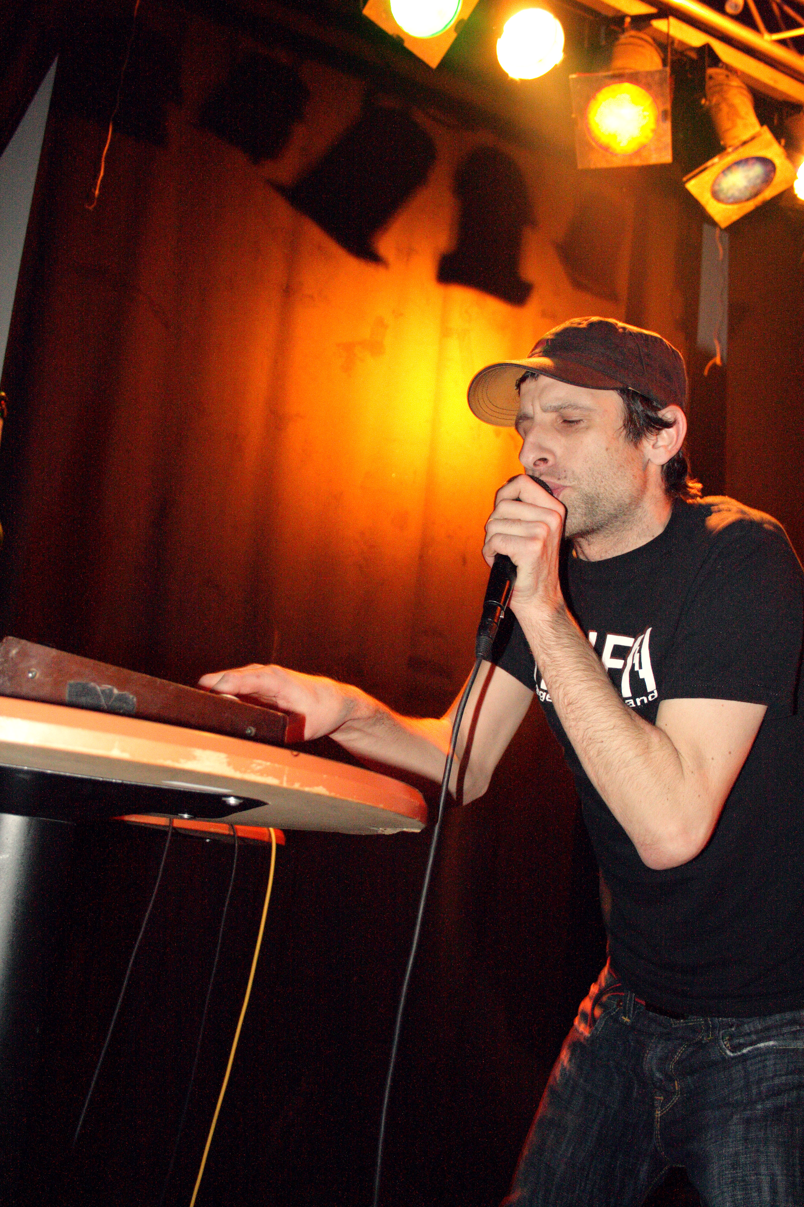 Torsun, singer of the electropunk band Egotronic at a concert in Wunstorf, Germany on March 16th 2007.